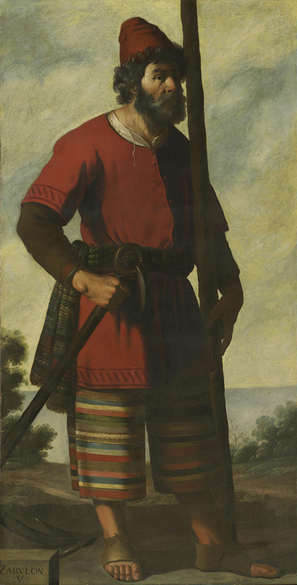 1640-1645 painting of the biblical patriarch by Francisco de Zurbarán